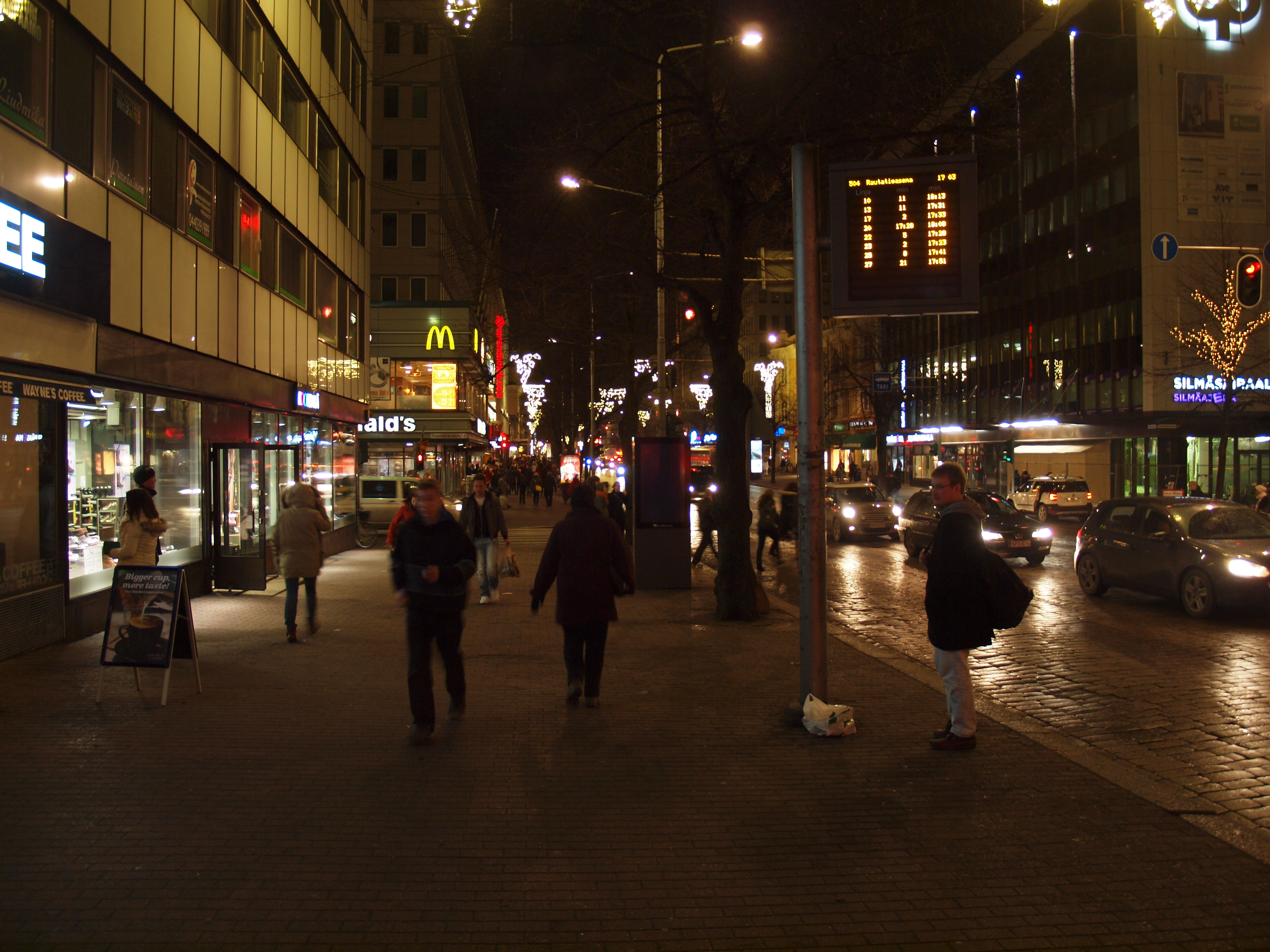 Hämeenkatu, the central street of Tampere, Finland, on a November evening. The sun has already set, but the street is well illuminated with street lights, shop advertising lights, and the traditional Tampere Christmas lights.